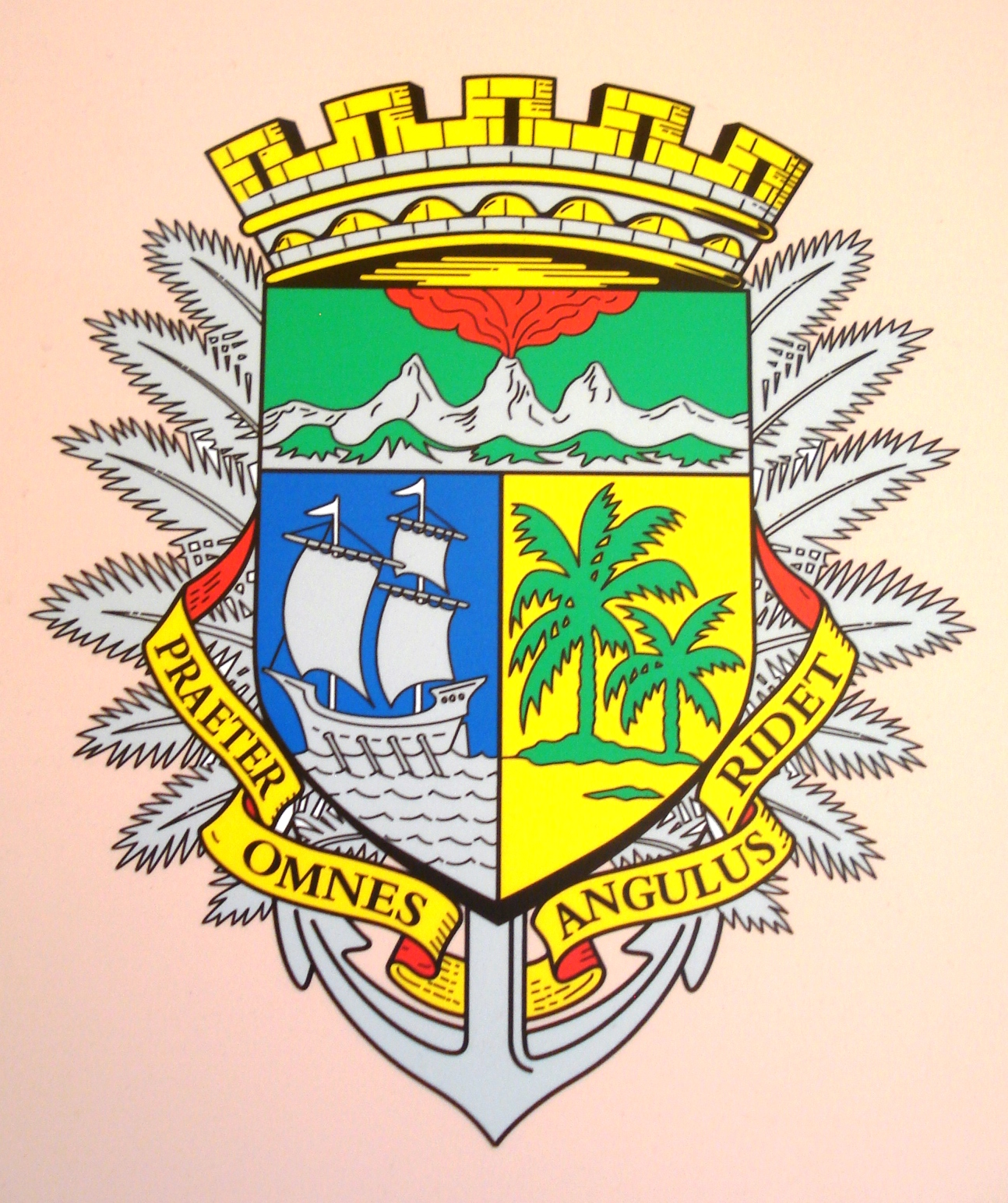 Coat of Arms of the town of St. Denis de la Réunion as displayed on the walls of the town hall